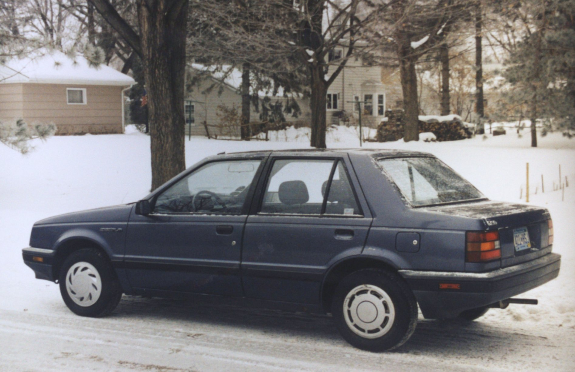 The dreaded 86 Chevy Spectrum (captive import Isuzu I Mark). In it's natural state, being pulled or towed after it's frequent break downs. This car always had three things wrong with it. Fix something and something else would break. Repair two things and two other things would go bad. My first car that I had to sell for junk.